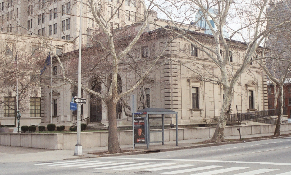 Marks Scout Center, 22nd & Winter Streets, Philadelphia, Pennsylvania